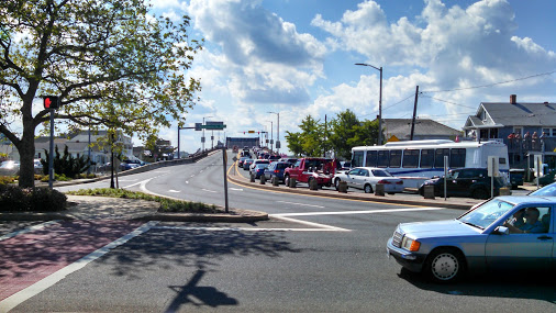 Eastern terminus US Route 50 Ocean City, Maryland